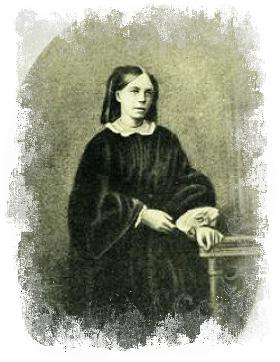 Bahmeteva Sofia, wife of Aleksei Tolstoy, russian writer